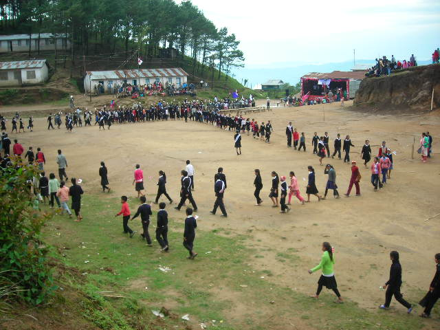 Amar Kalyan High School, During the visit of ambassador of Japan